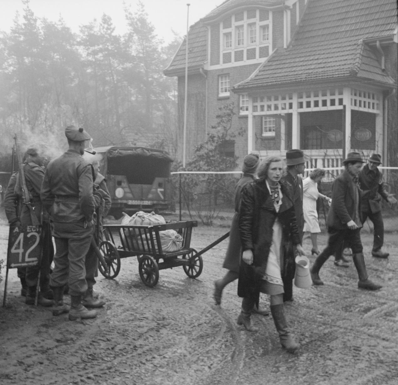 The British Army in North-west Europe 1944-45 Scottish troops watch as German refugees stream back through the village of Bedburg near Kleve, 19 February 1945.